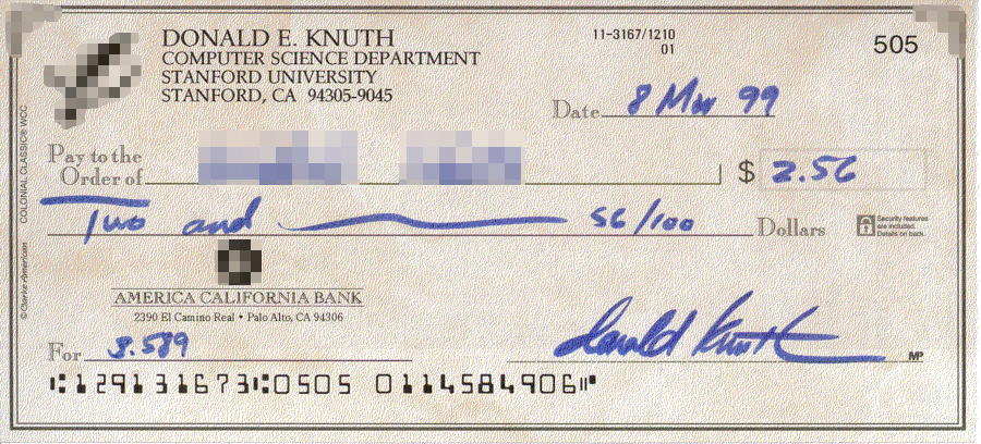 One of Donald Knuth's reward checks. Note that the machine-readable numbers at the bottom of the check have been randomly swapped or modified, so that no personal information about Don Knuth's personal bank account is leaked through this image.